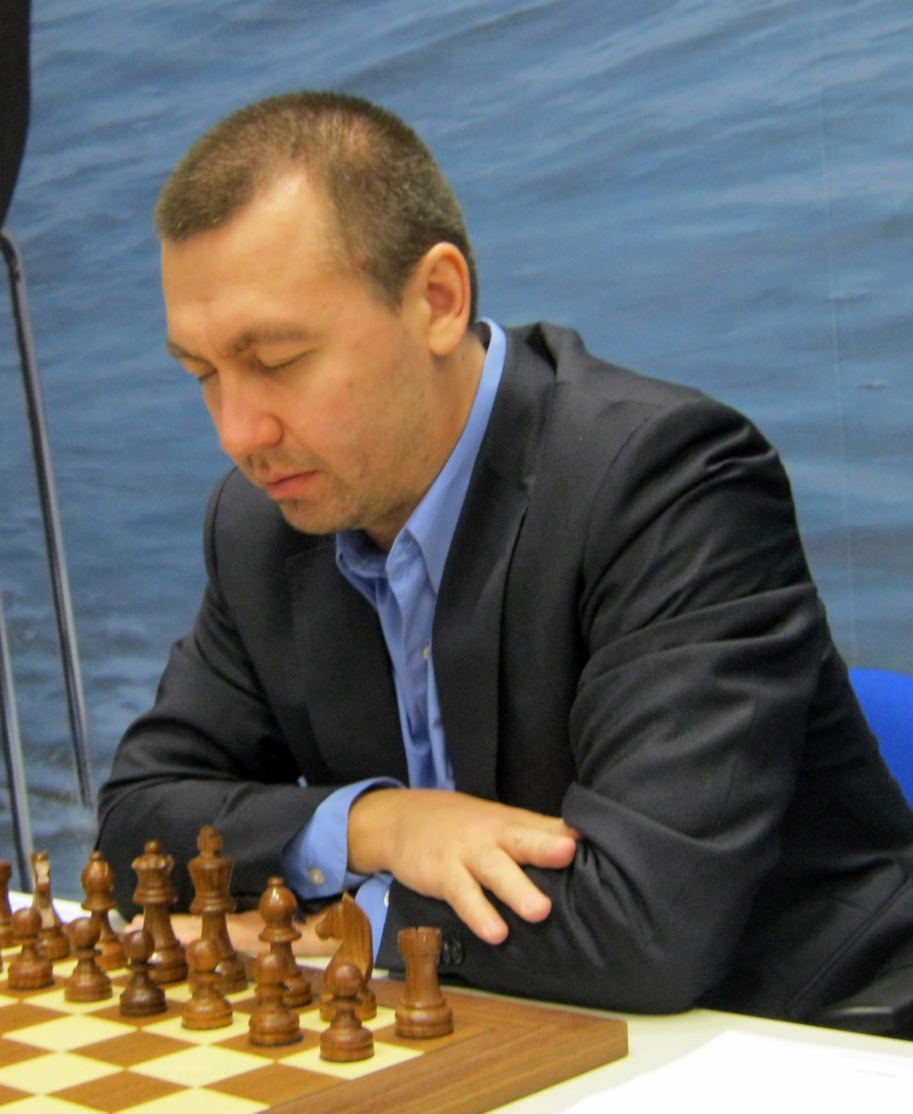 Gata Kamsky, chess grandmaster from the United States